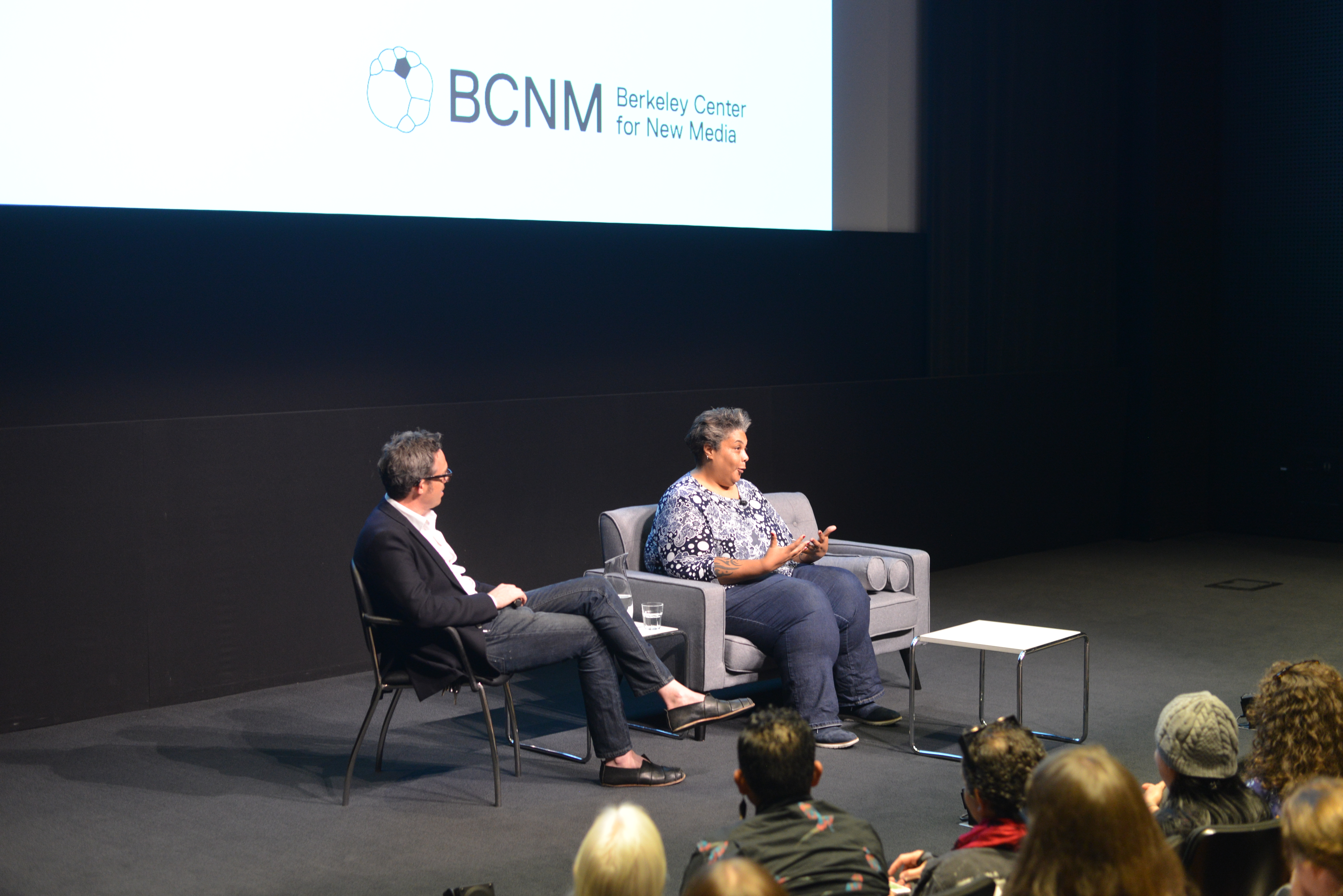 Photo of a guest lecturer for the Berkeley Center for New Media during an Art, Technology, and Culture Colloquium forum in 2018